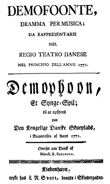 Giuseppe Sarti - Demofoonte - titlepage of the libretto - Kopenhagen 1771